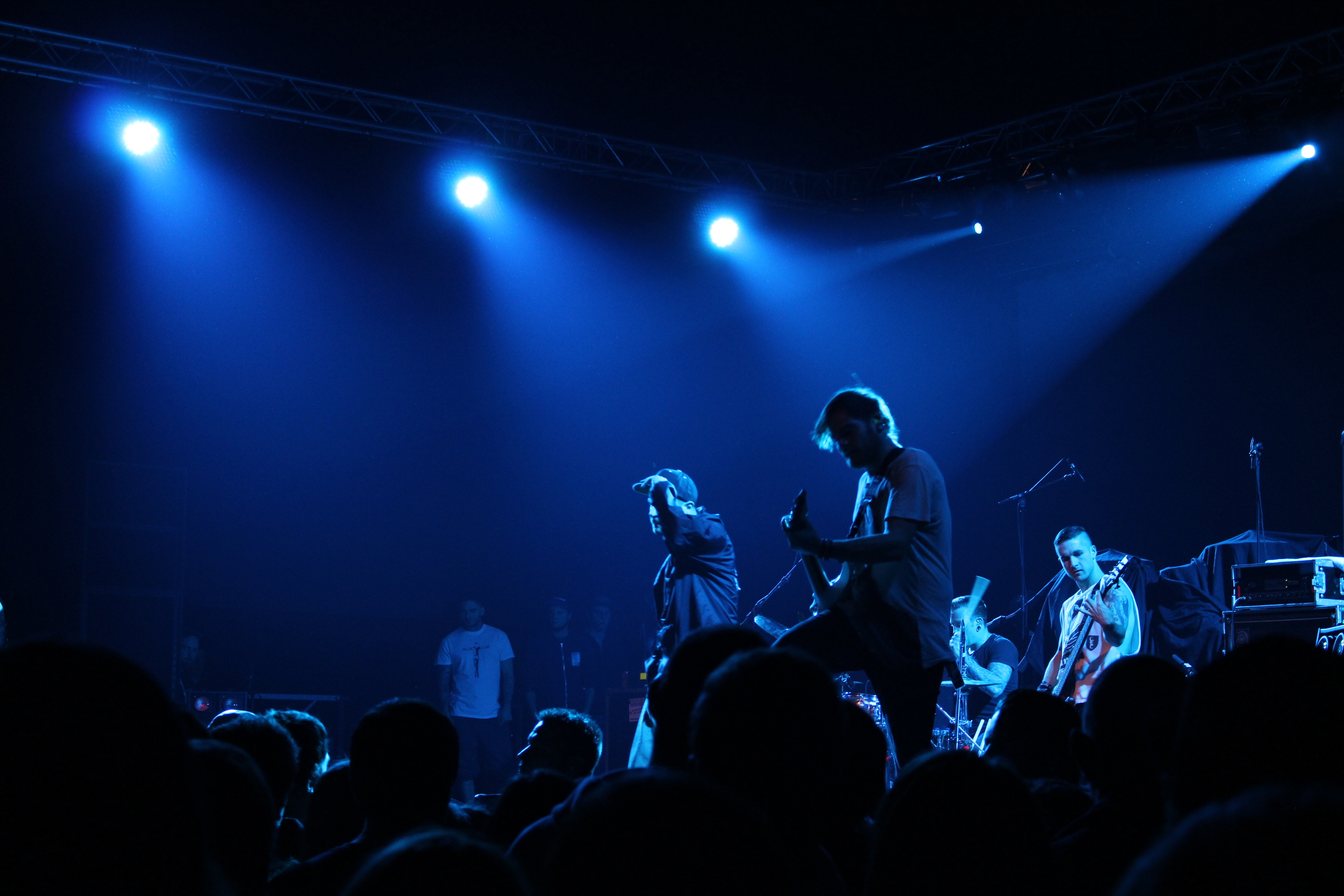 Emmure live in Lint, Belgium in 2012.